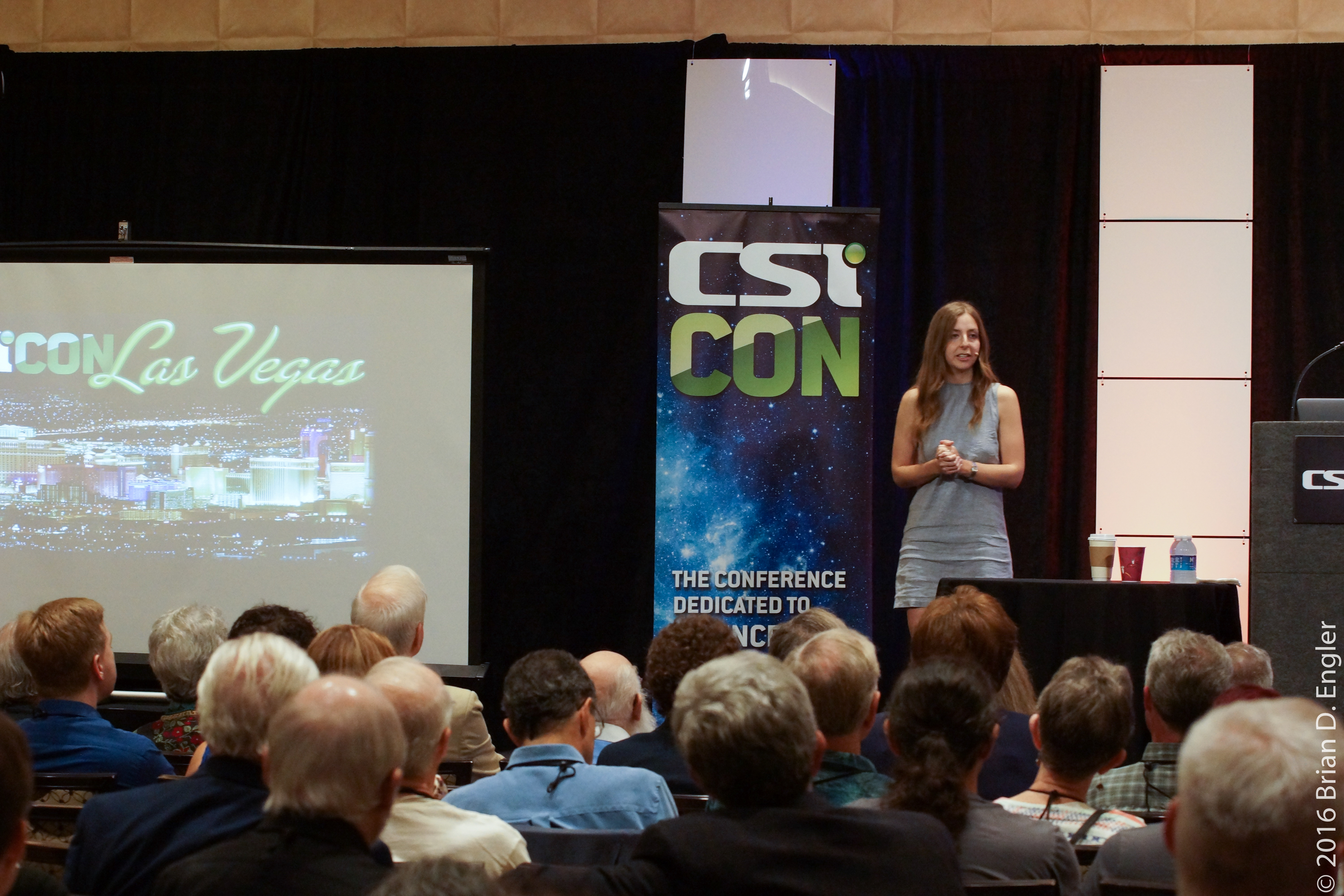 Author and Psychologist Maria Konnikova addresses "Confidence Games: Why We Fall For Them Every Time" at CSICon Las Vegas on October 28, 2016.